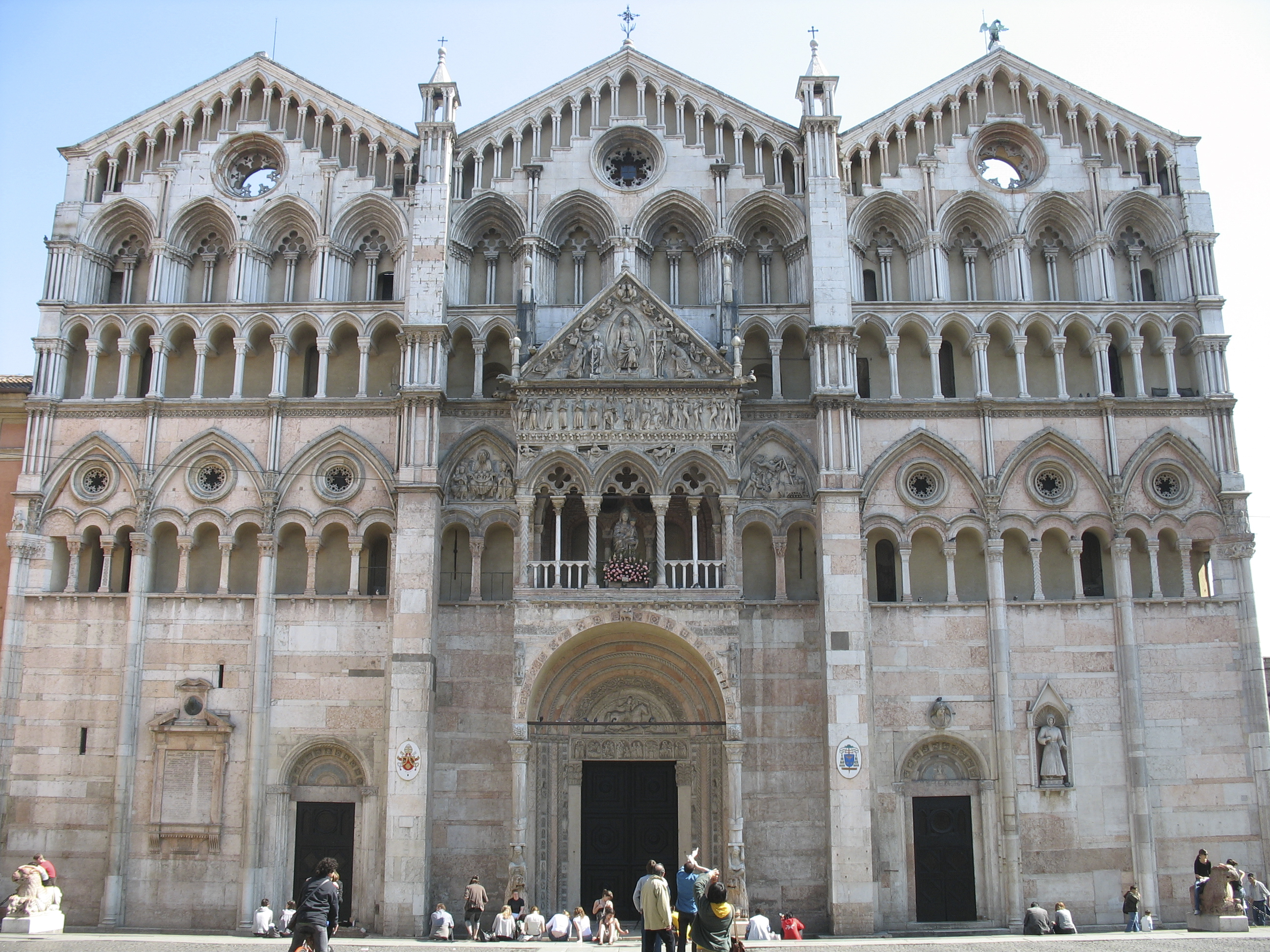 Ferrara Cathedral - façade